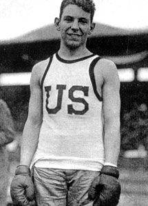 Eddie Eagan